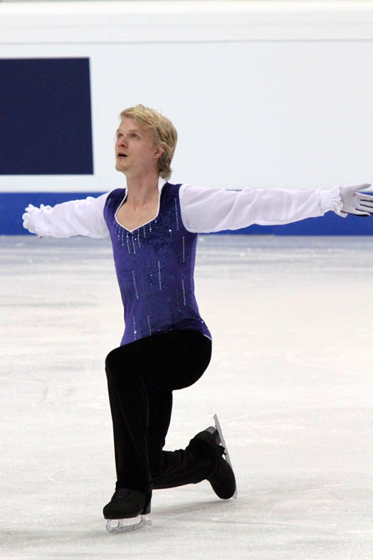 Adrian Schultheiss at the 2011 European Figure Skating Championships.